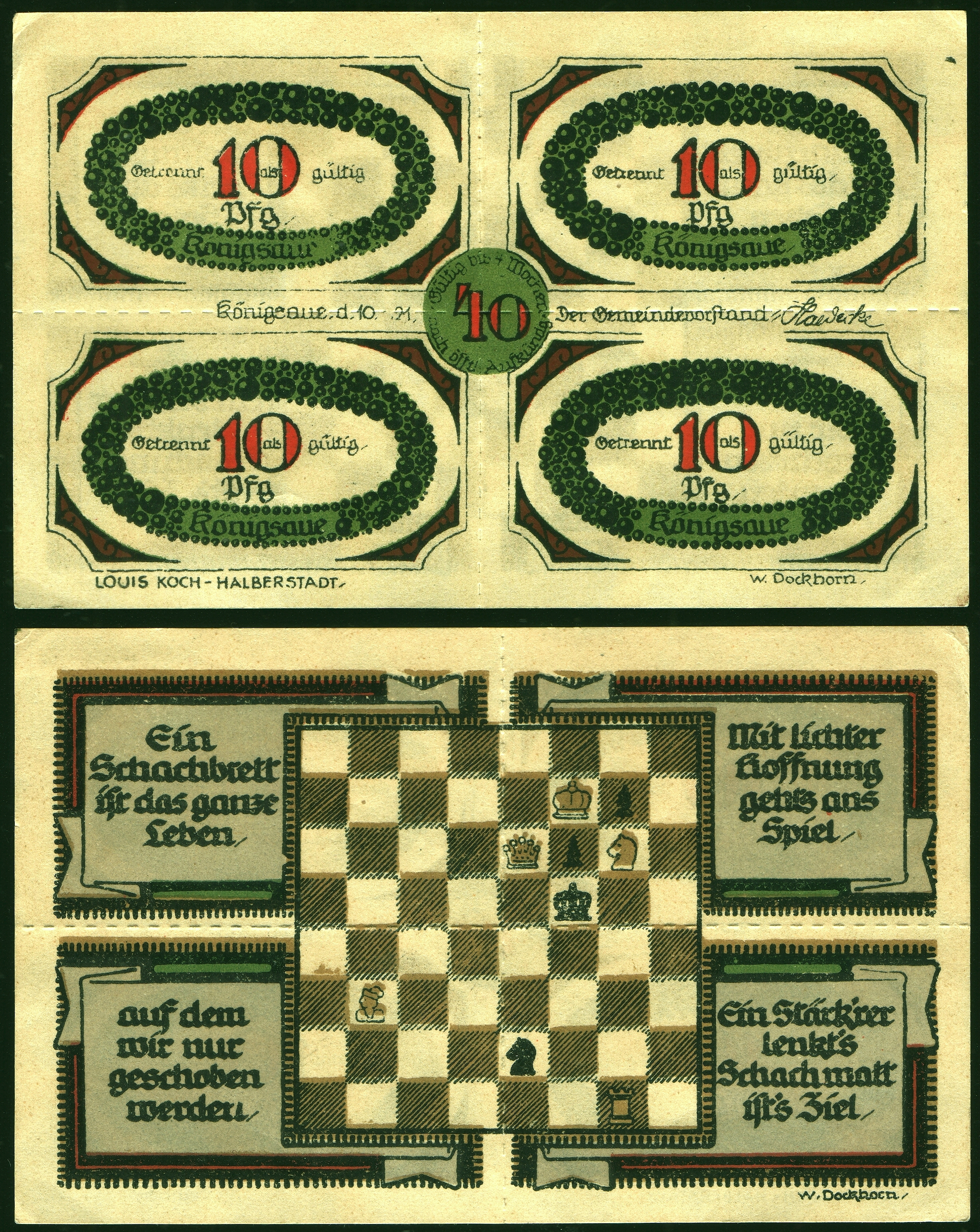 Notgeld banknote 40 Pfennig (divisible by 4 at 10), Königsaue, 1921, size: 10 cm x 6,4 cm.